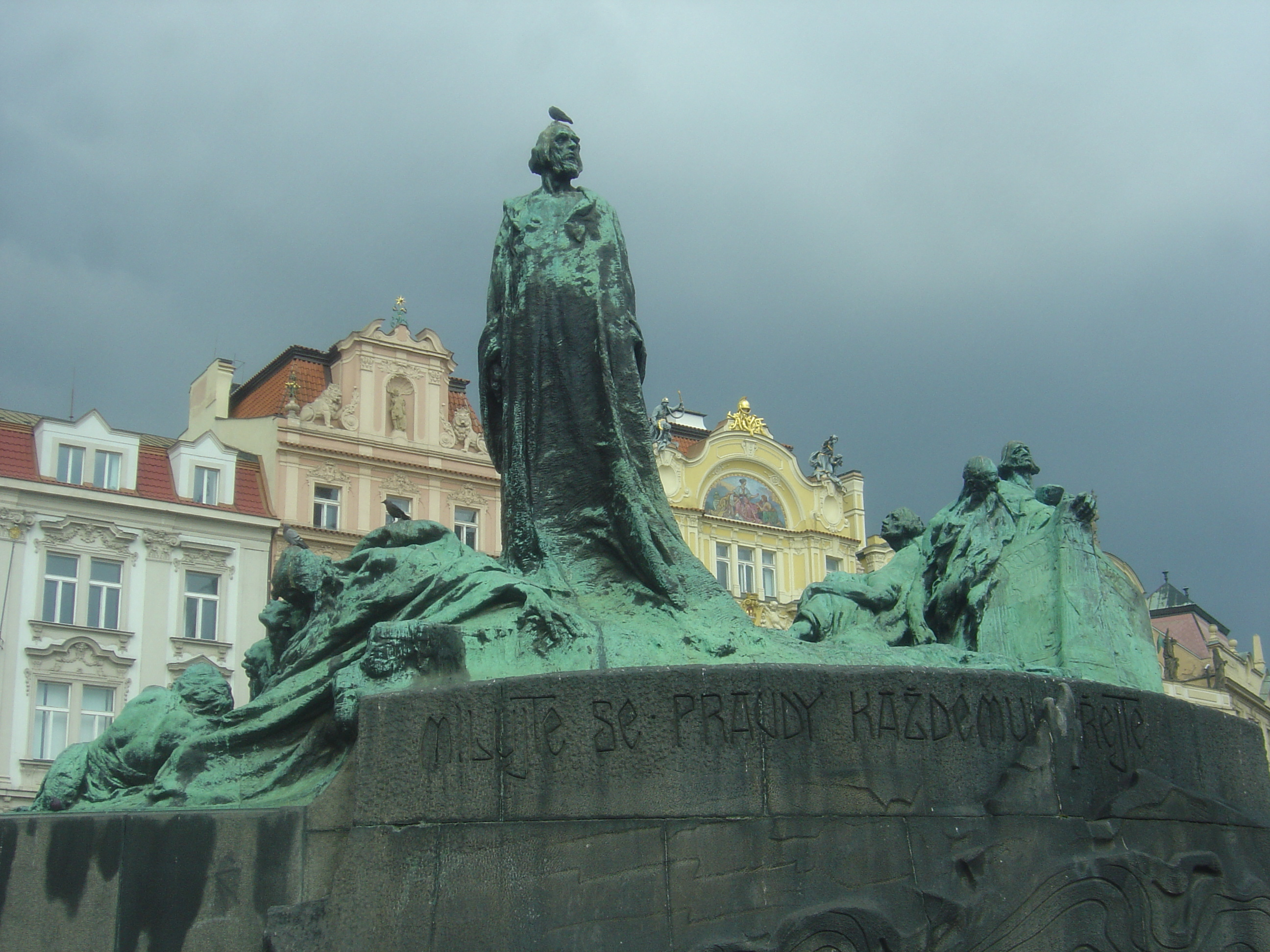 Monument to Jan Hus, Staroměstské náměstí, Prague.